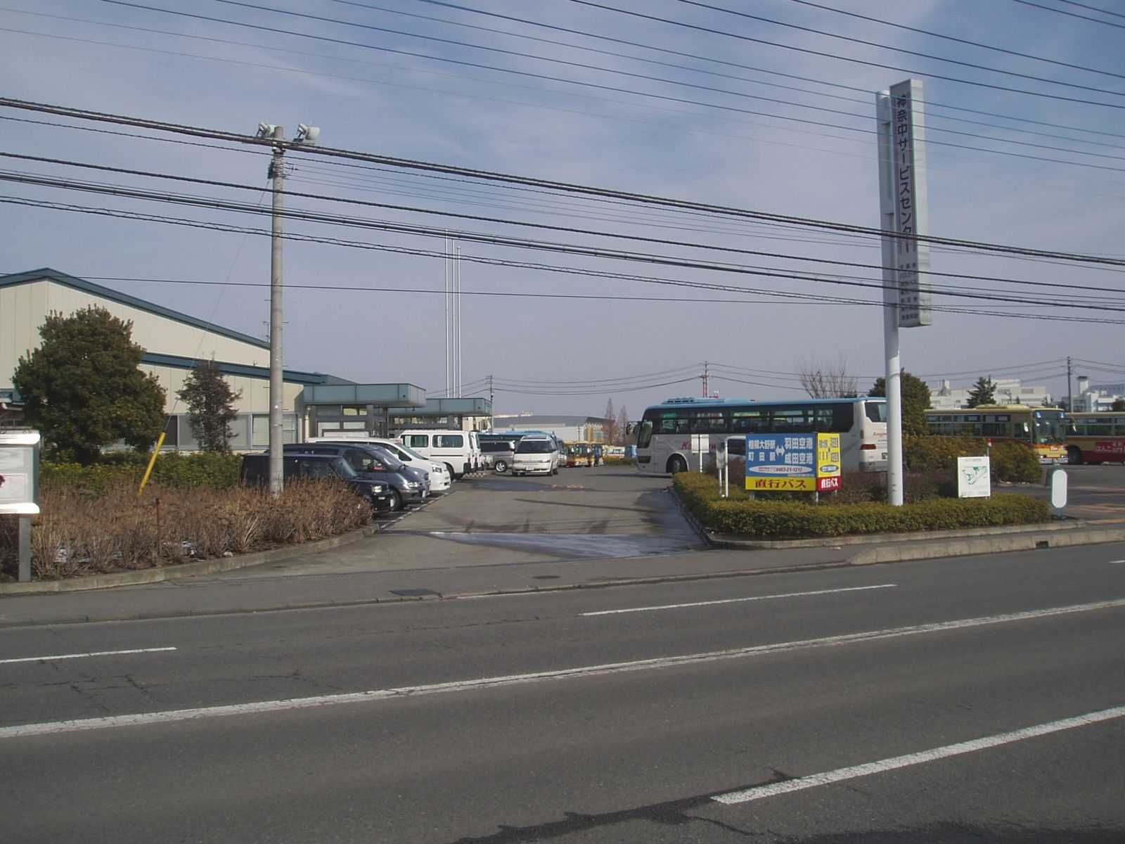 Kanachu Sagamihara Branch(Asamizo)